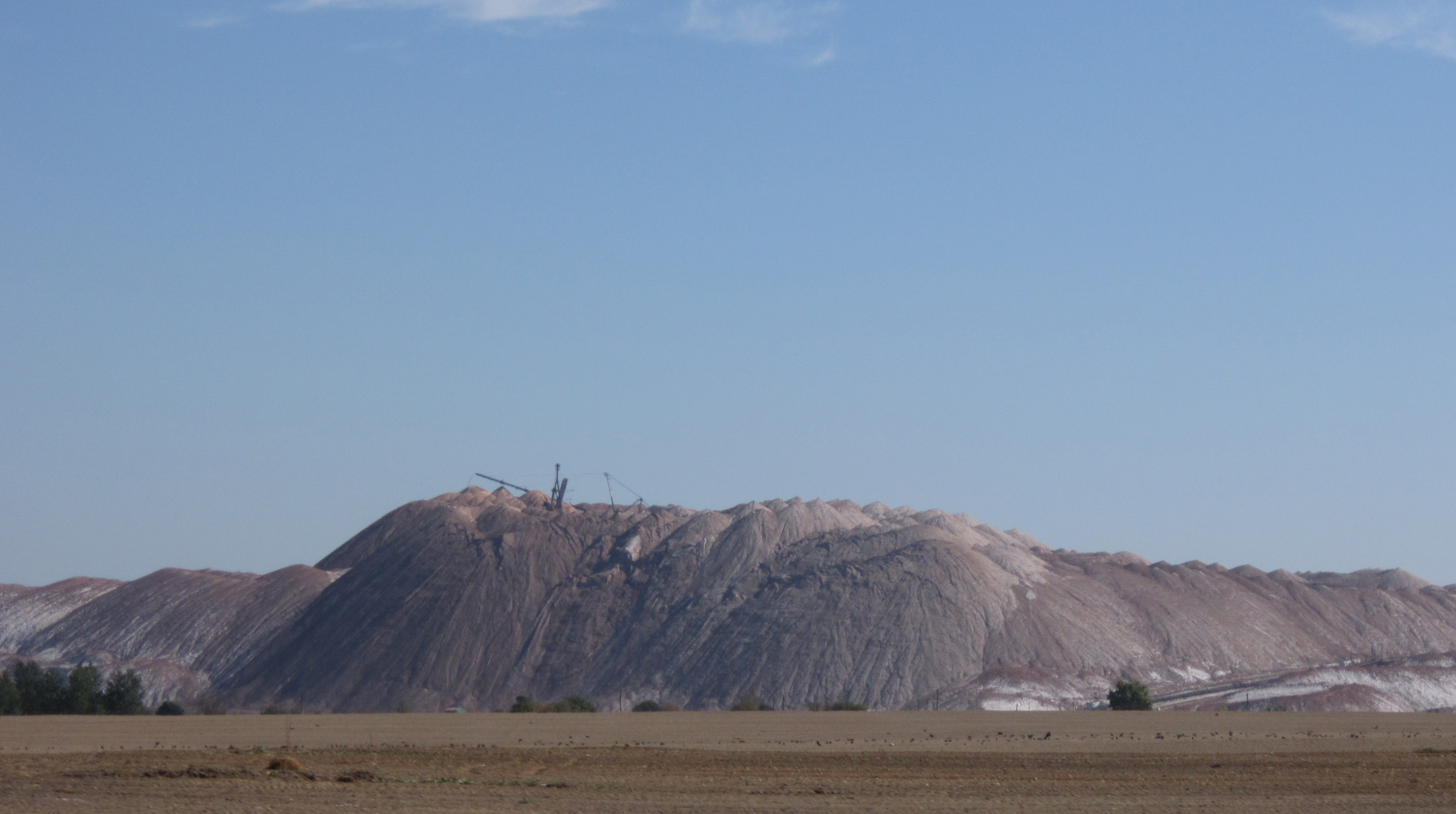 Spoil tip (Slag heap) near Salihorsk (Soligorsk) in Belarus